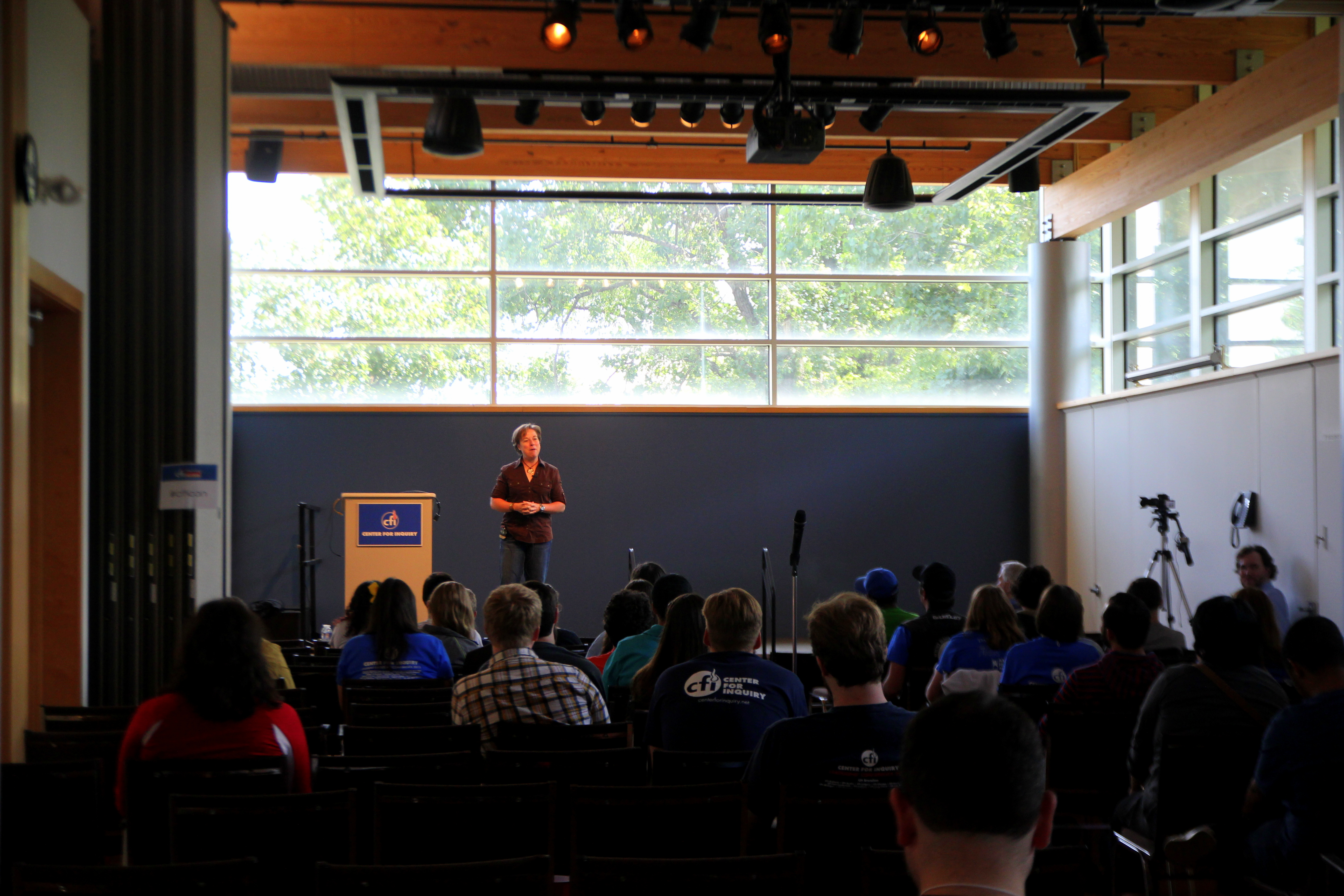 CFI Lecture Hall with windows open